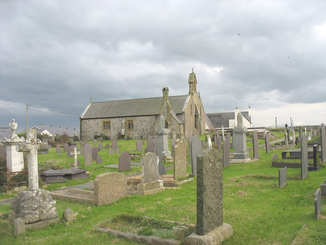 Eglwys St Beuno Church, Aberffraw The first church was established here in the 7thC by St Beuno (later Abbot of Clynnog Fawr SH4149). During the medieval period the church was a royal church, with Aberffraw being the site of the main court of the Princes of Gwynedd. Parts of this medieval building survive in the present church.